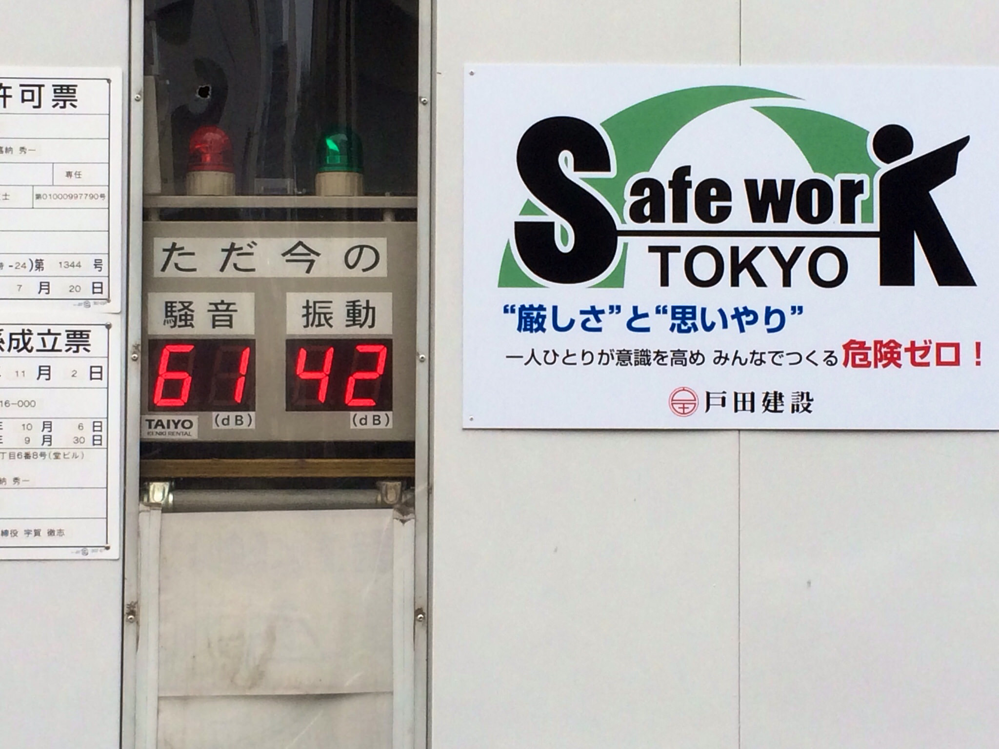 Sound level monitors at a construction site